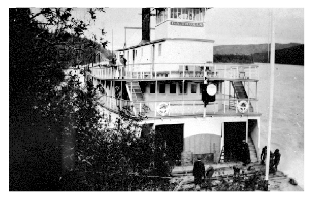 Sternwheeler SS D.A. Thomas at Hudson's Hope